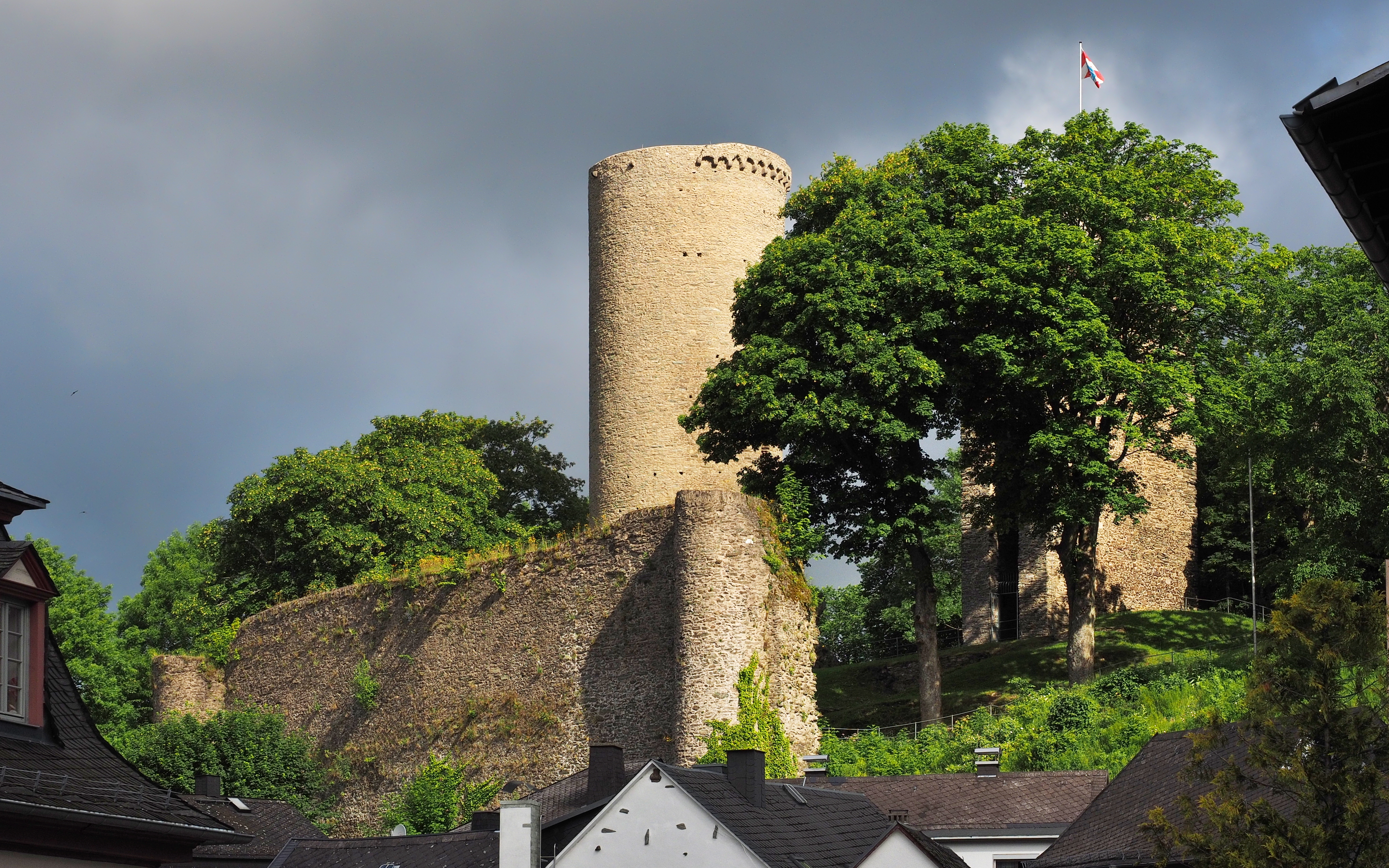 Reifenberg castle, Germany